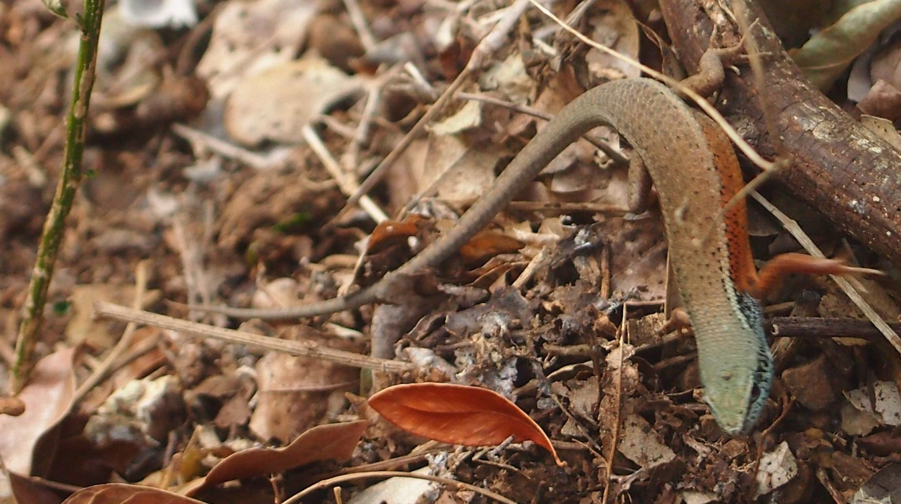 Carlia schmeltzii